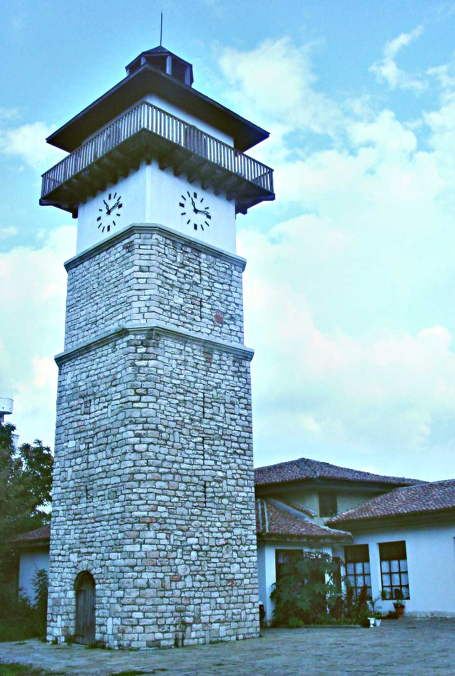 Photography & Art: Kosi Gramatikoff User:Kosigrim; Location: Tower in Old Town, Dobrich, Bulgaria